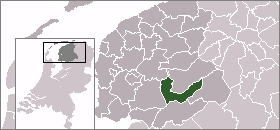 Location of Heerenveen